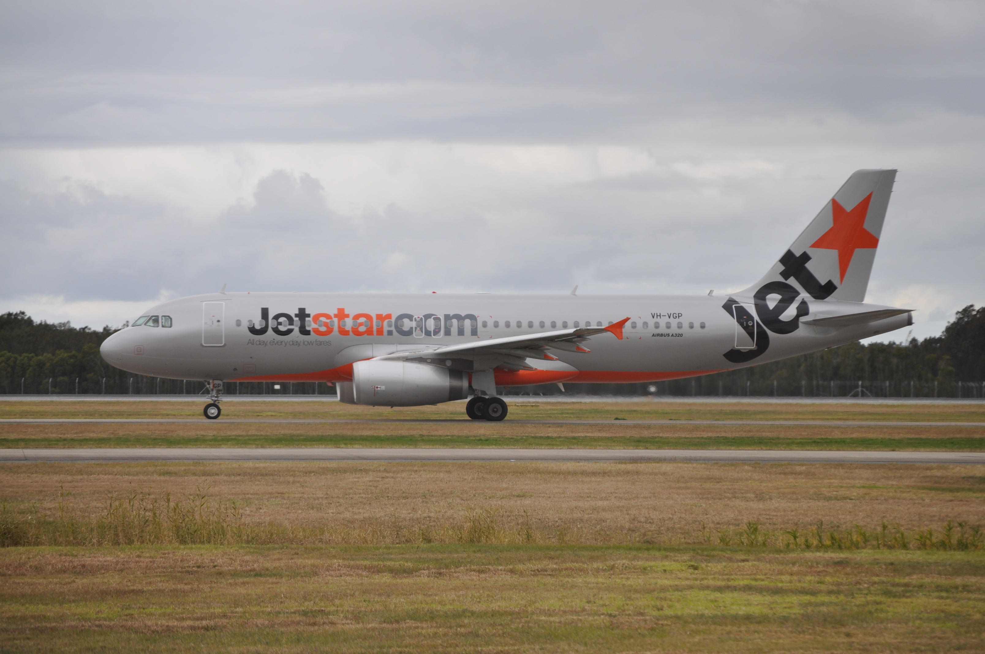 A Jetstar Airbus taxiing at Brisbane Airport, 24 July 2010